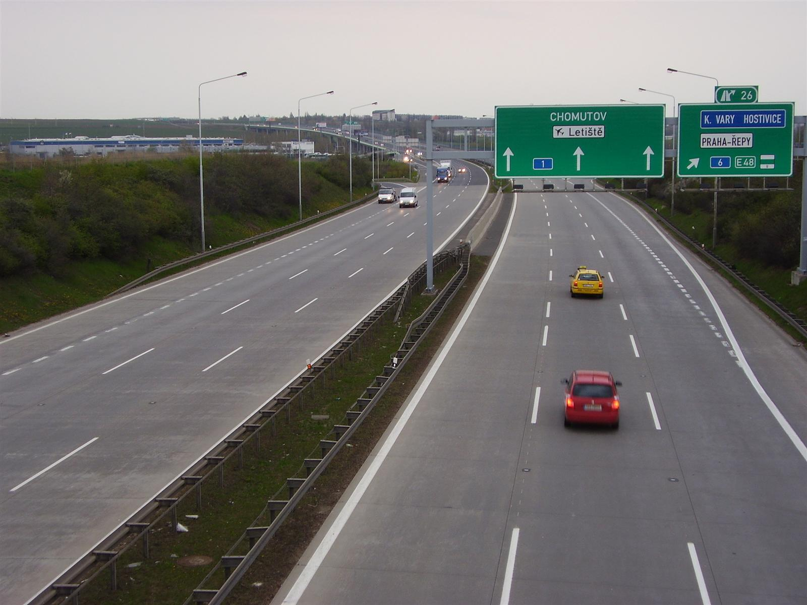 Expressway R1 called Pražský okruh near Zličín and Řepy